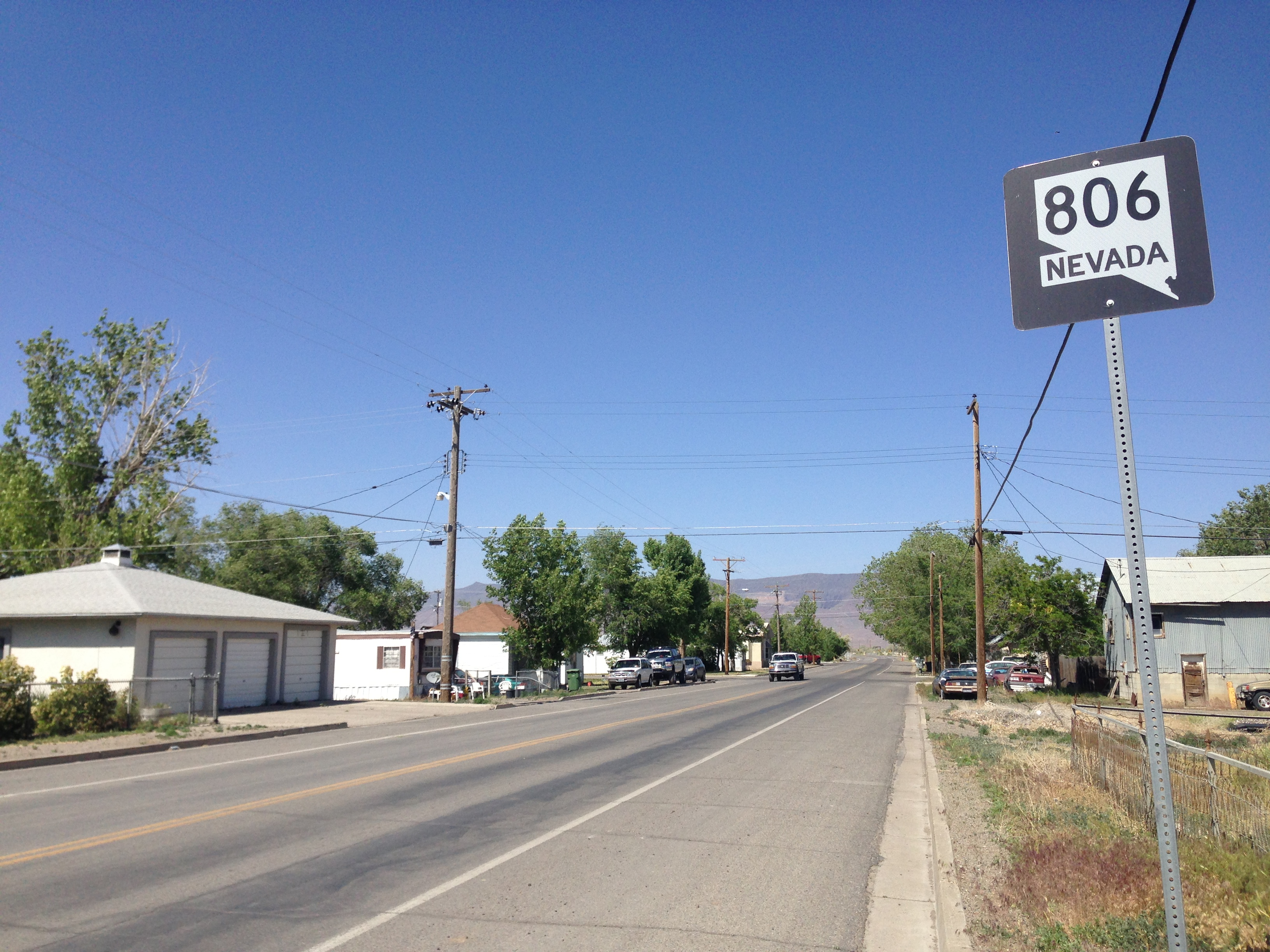 First reassurance shield on northbound Nevada State Route 806 in Battle Mountain, Nevada